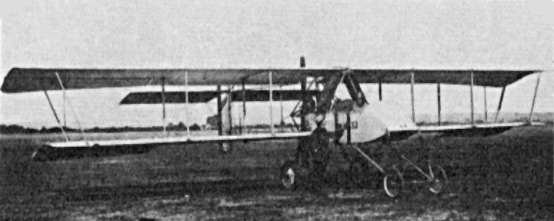 Voisin LA